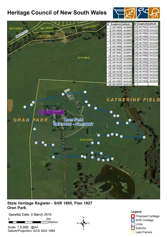 Oran Park (homestead)